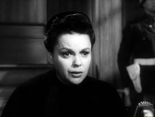 Cropped screenshot of Judy Garland from the trailer for the film Judgment at Nuremberg.